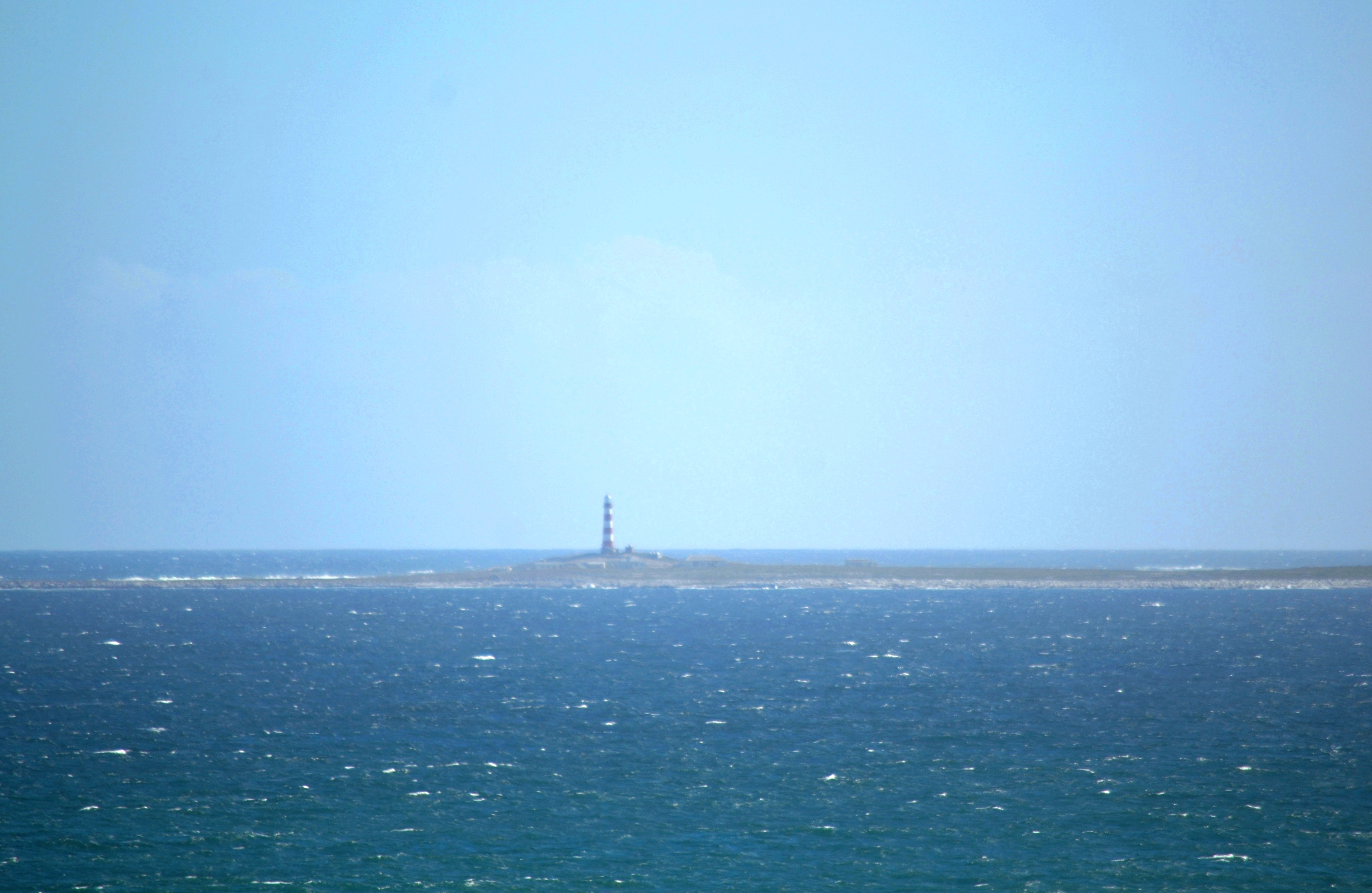 Dassen Island and lighthouse, 9km off the coast of Yzerfontein. Lighthouse is 28m, circular iron tower with white and red bands. 1893 This media shows a South African Protected Site with SAHRA file reference New.